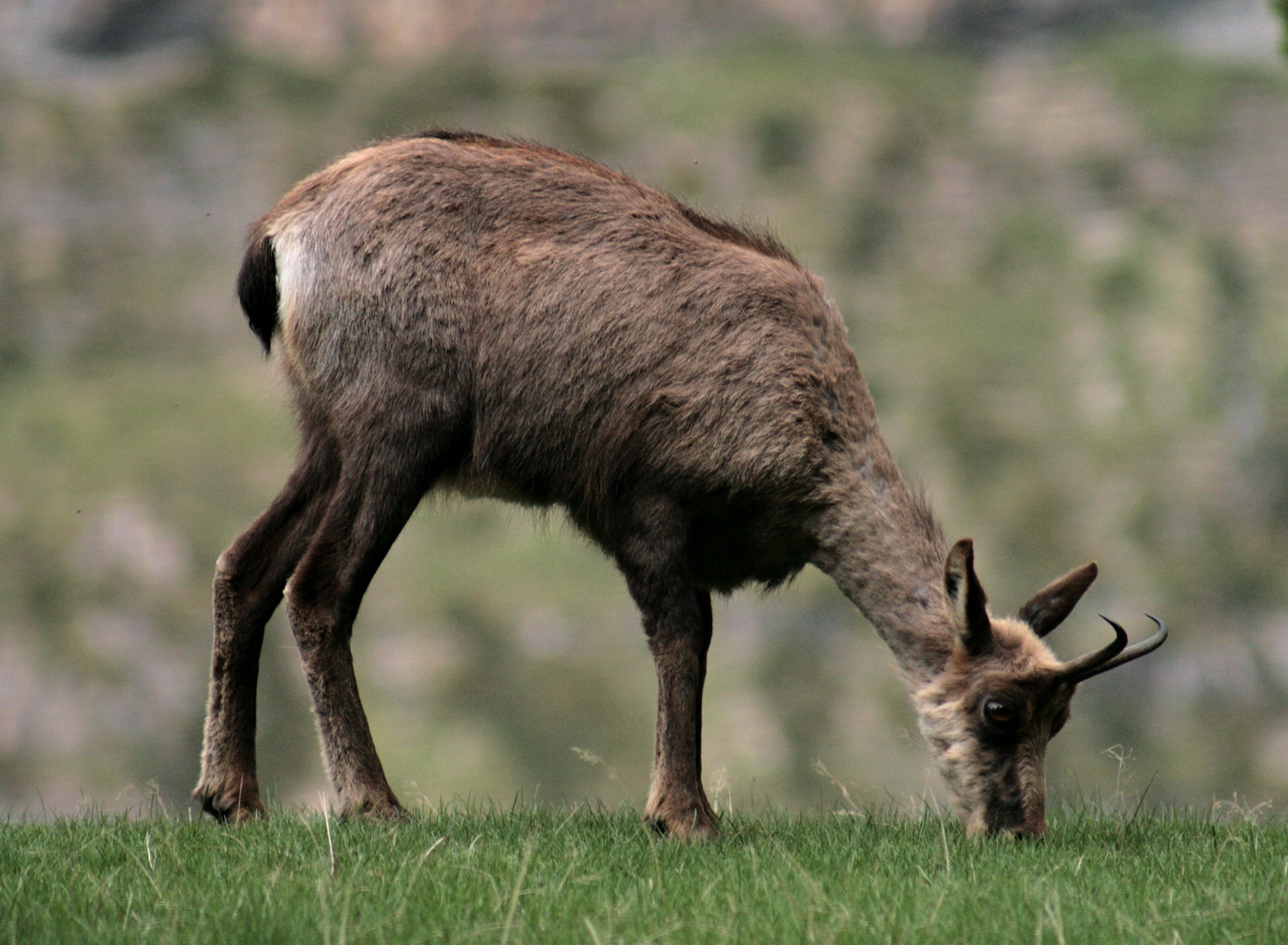 Pyrenean chamois (Rupicapra pyrenaica pyrenaica).